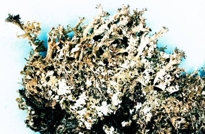 Cladonia squamosa Hoffm., 1796 (photograph of a herbarium specimen) Growing in deciduous woods along stream near Mt. Olivet Church (4 miles W of Hancock), Washington County, Maryland, USA; collected and identified by A. Norden and B. Ball (No. 158, 4 Mar 1973); specimen is now in the Lichen Herbarium of the New York Botanical Garden.